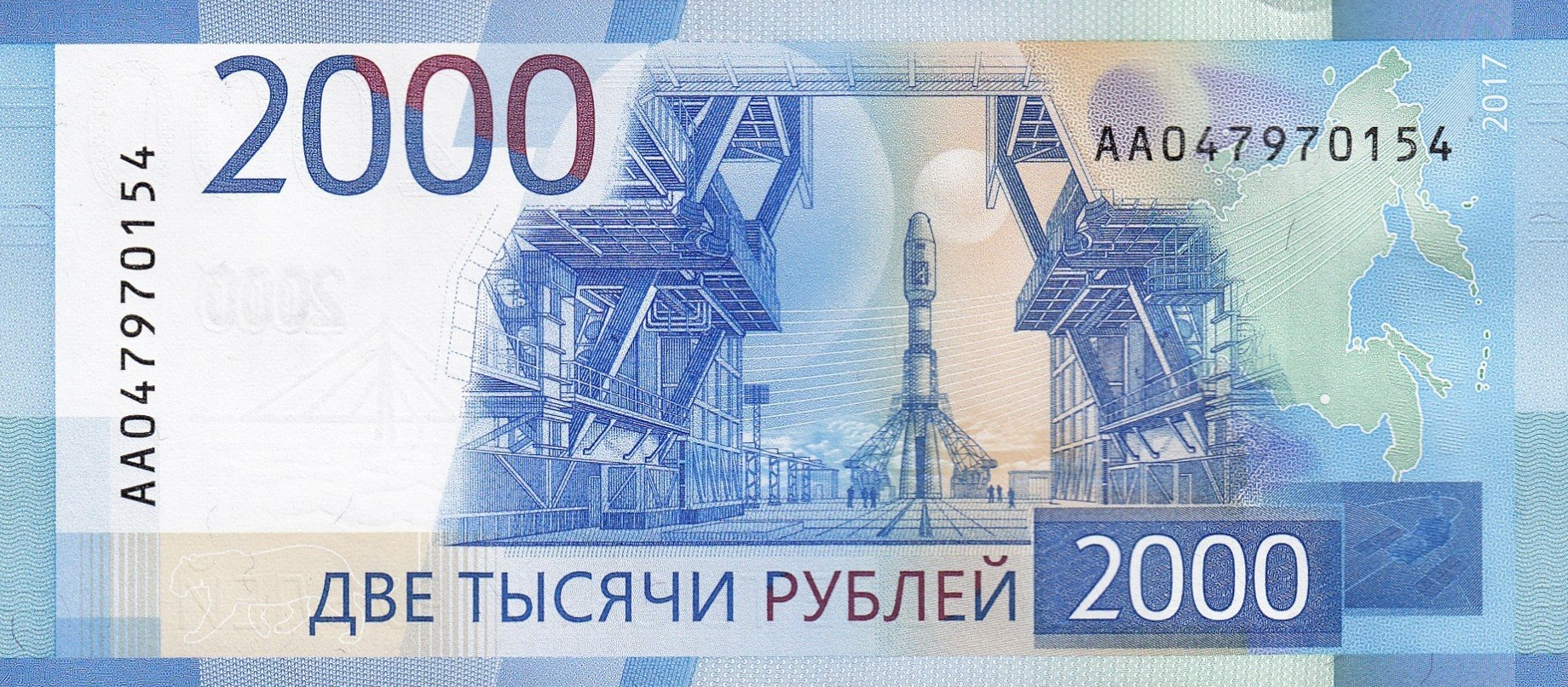 Russia 2017 banknote 2000 rubles